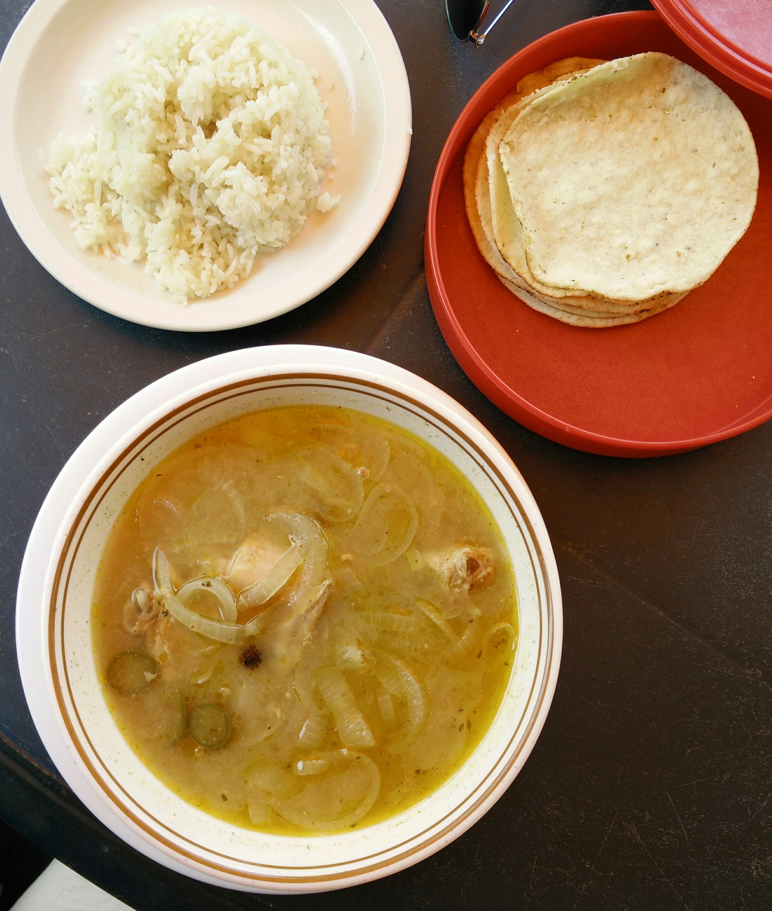 Escabeche as served in Belize, with chicken and onions.